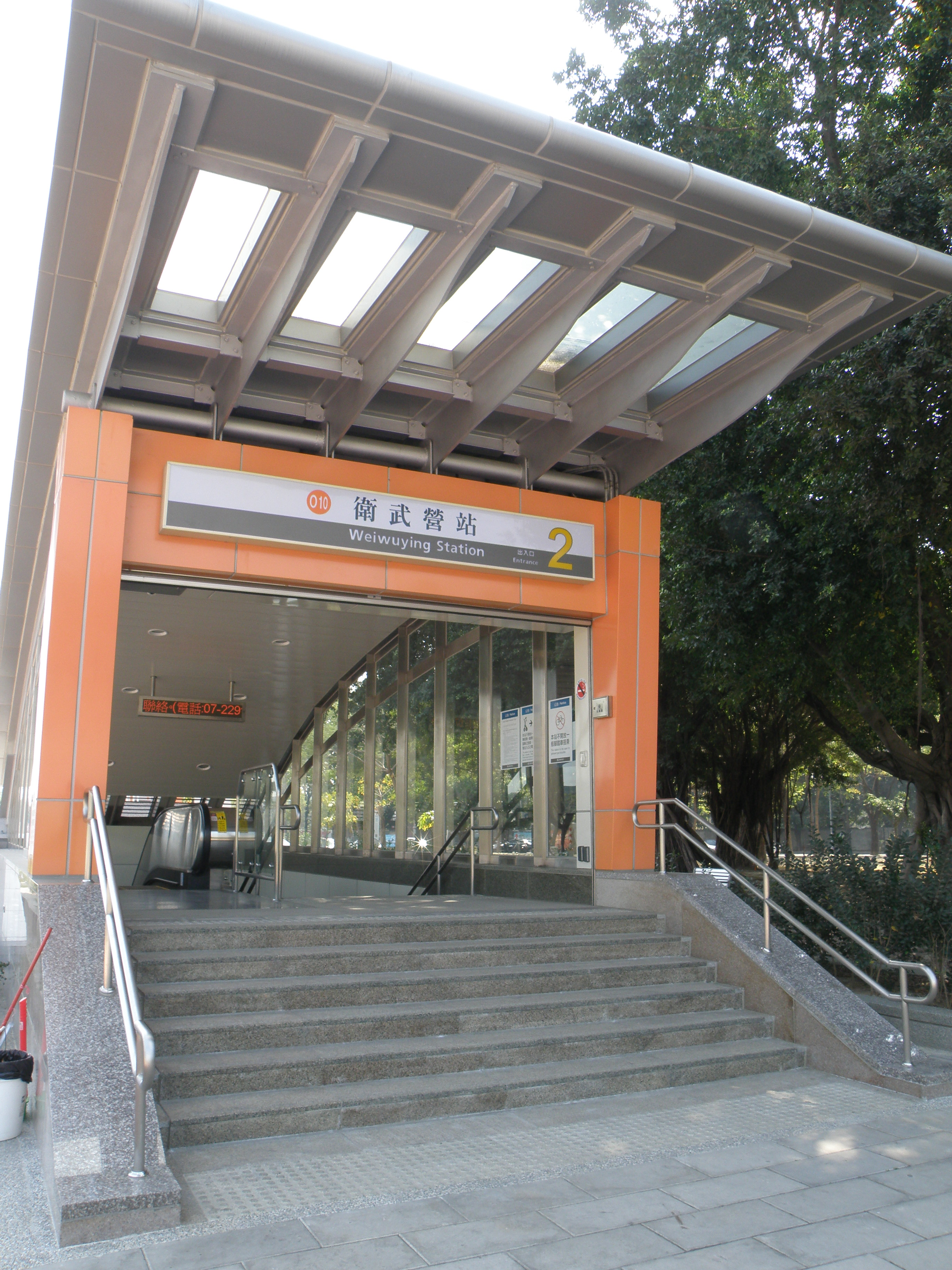 Exit No.2 of Weiwuying Station, Kaohsiung Mass Rapid Transit.